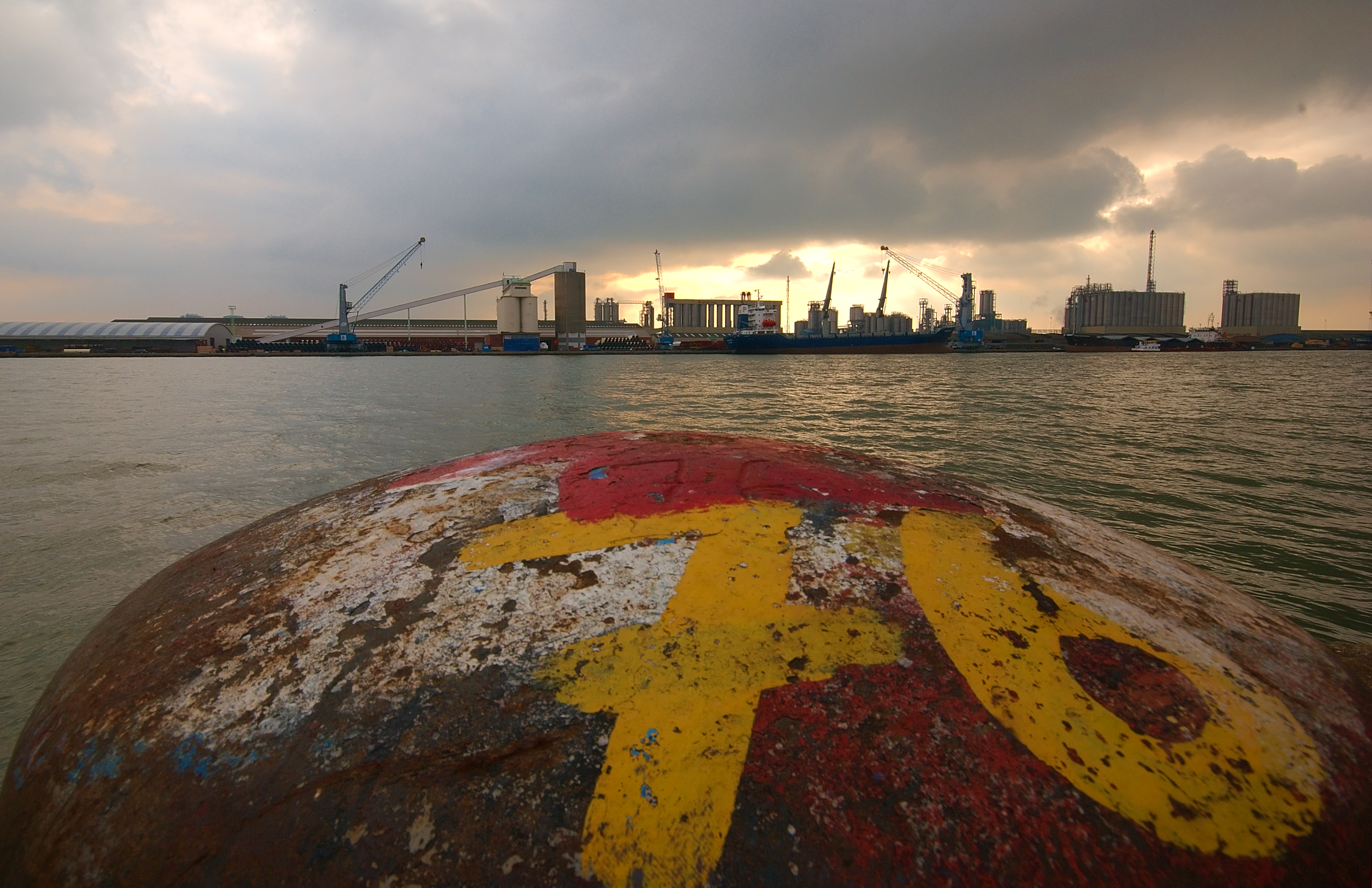 port of Antwerp Belgium.